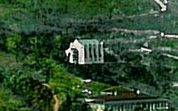 historic view of Hongkong Cropped version with zoom on the Peak Church